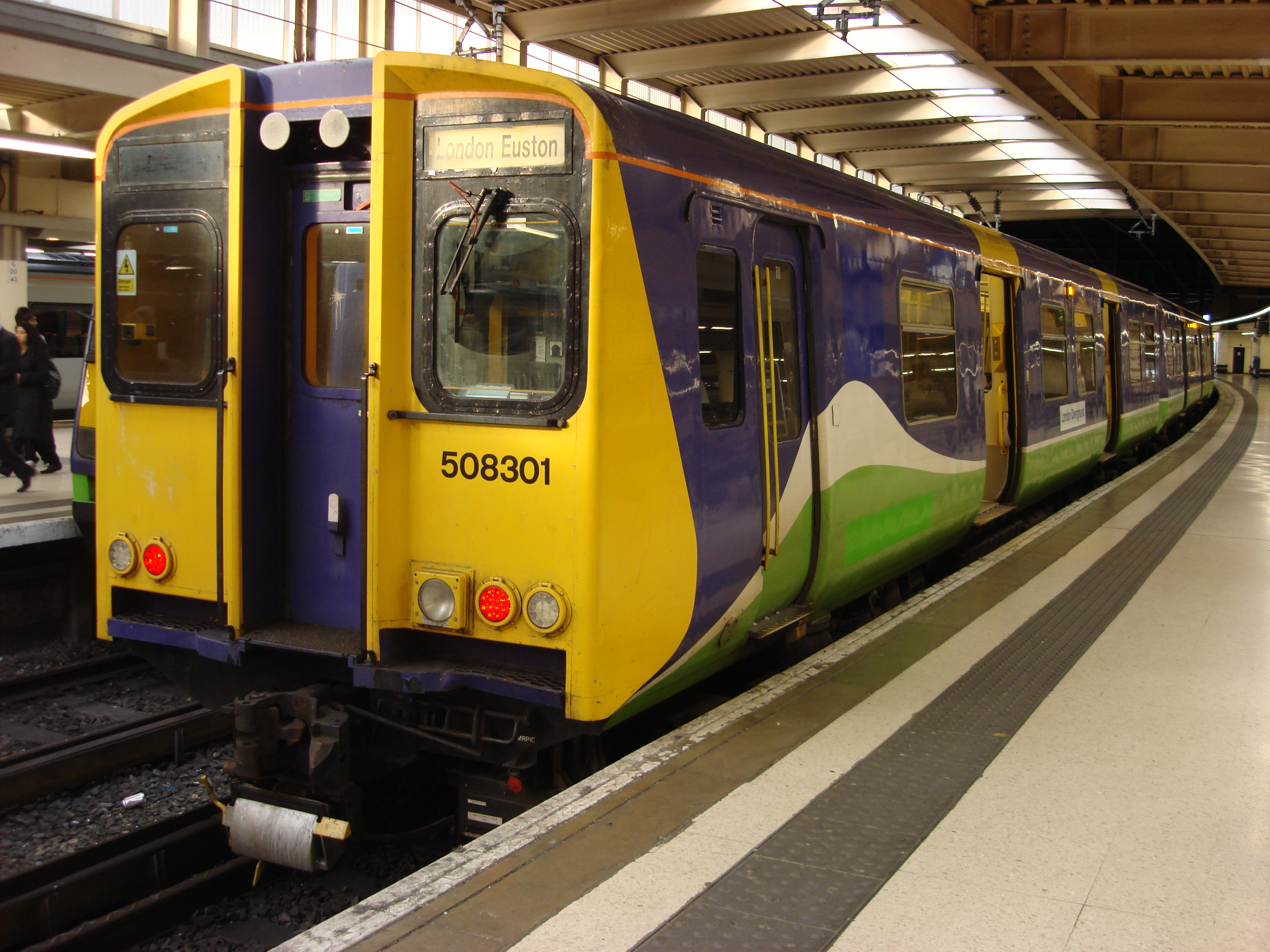 508301 at Euston. London Underground withdrew its Class 508 units in 2010 after replacing them with Class 378 EMUs. They were transferred to Merseyrail. This unit was scrapped in 2013.